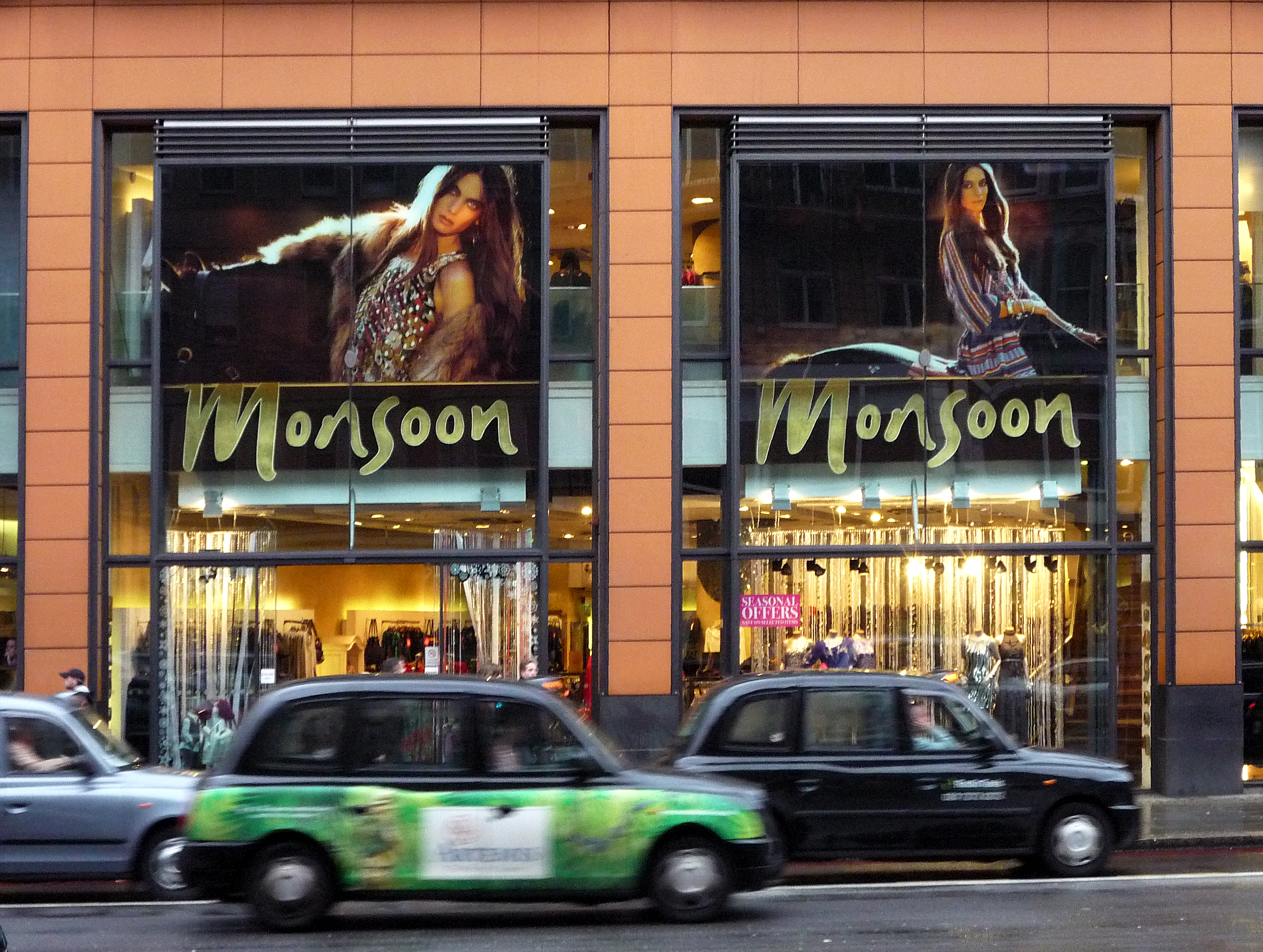 Monsoon Fashion Shop auf der 48 Brompton Rd, Kensington, London, UK.